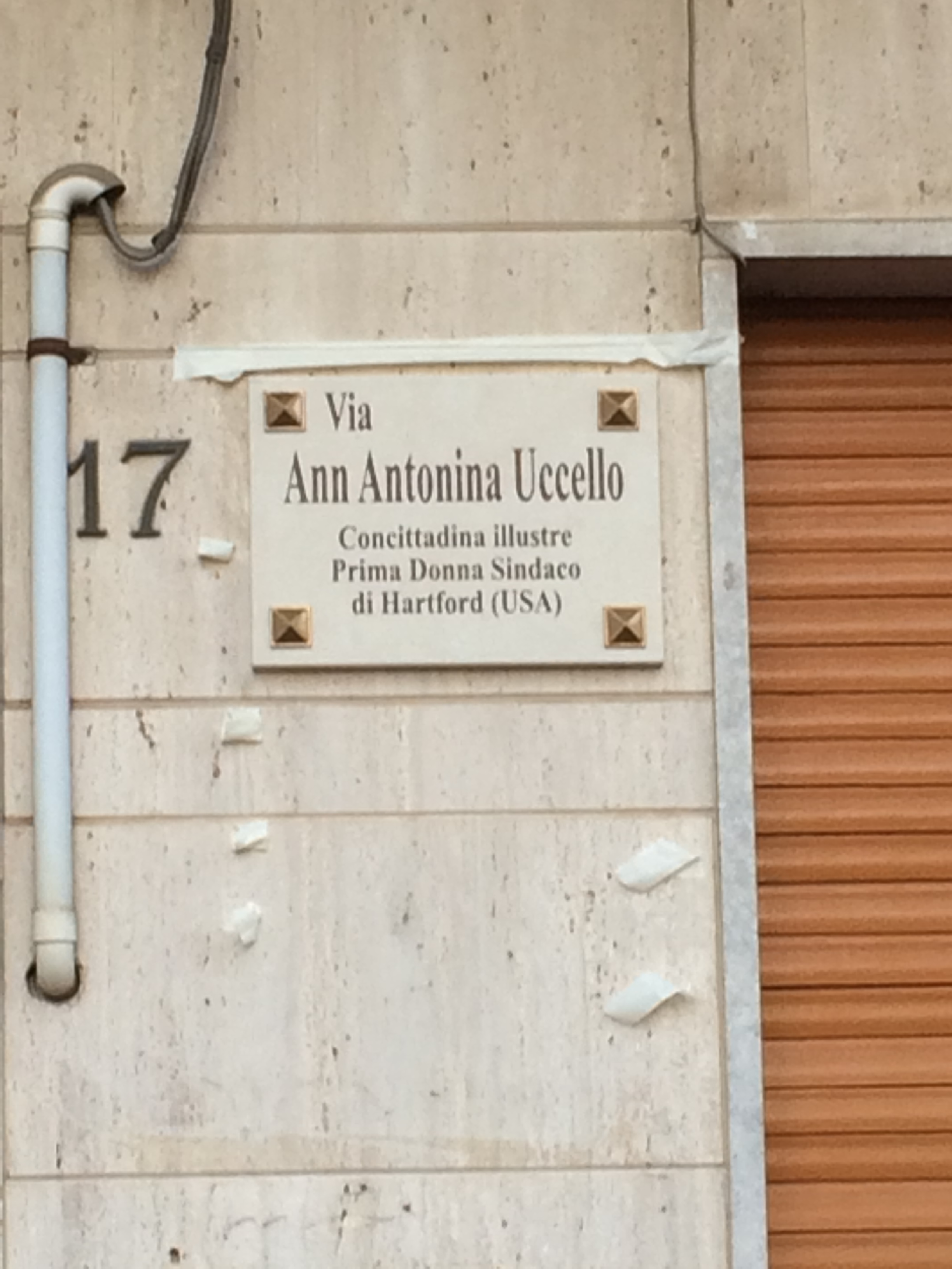 Street sign dedicated to Ann Uccello in Canicattini Bagni, Italy.